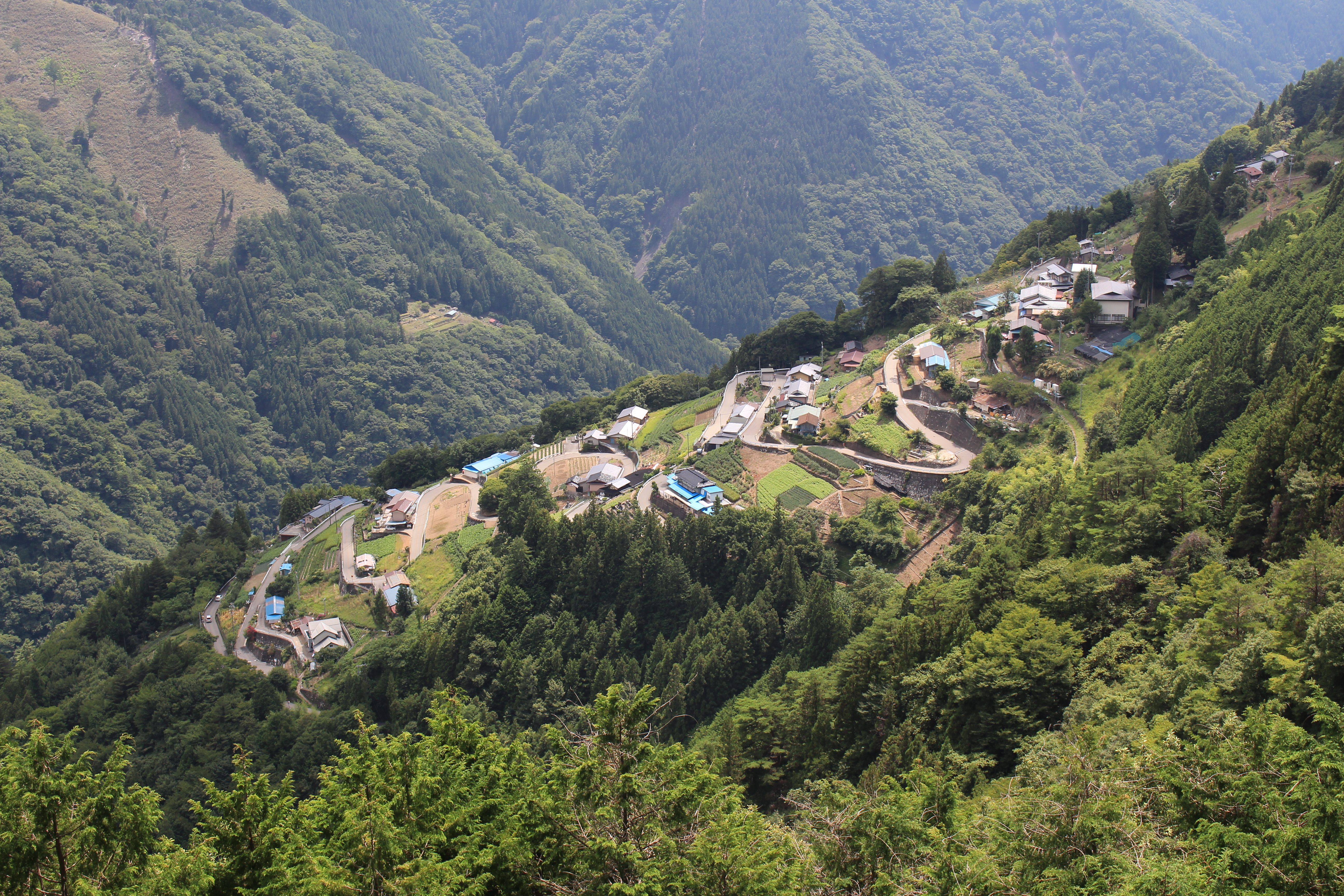 Shimogurinosato seen from viewpoint of Tenkunosato, in Kamimura, Iida, Nagano prefecture, Japan.